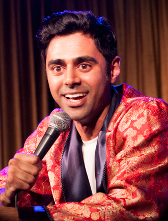 The Goatface Experience Photography by Mandee Johnson Presented by CleftClips August 14, 2013 The Virgil | Los Angeles, CA